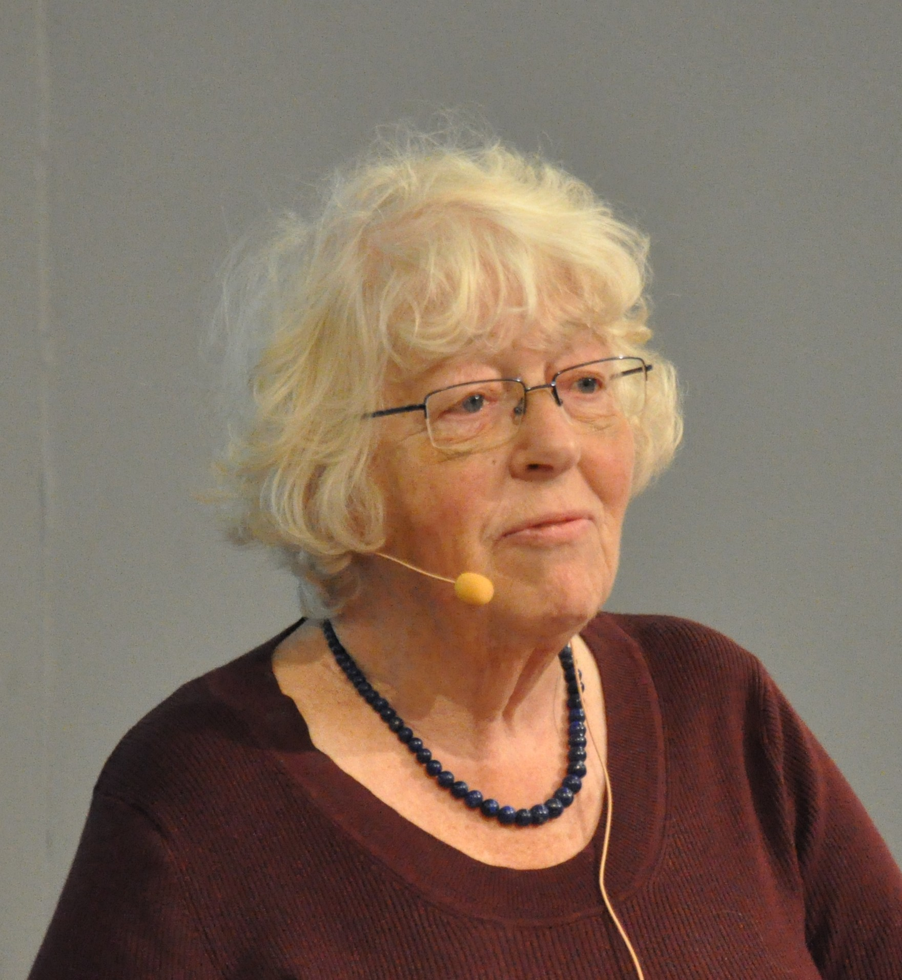 Birgit Arrhenius at the 2011 Göteborg Book Fair.